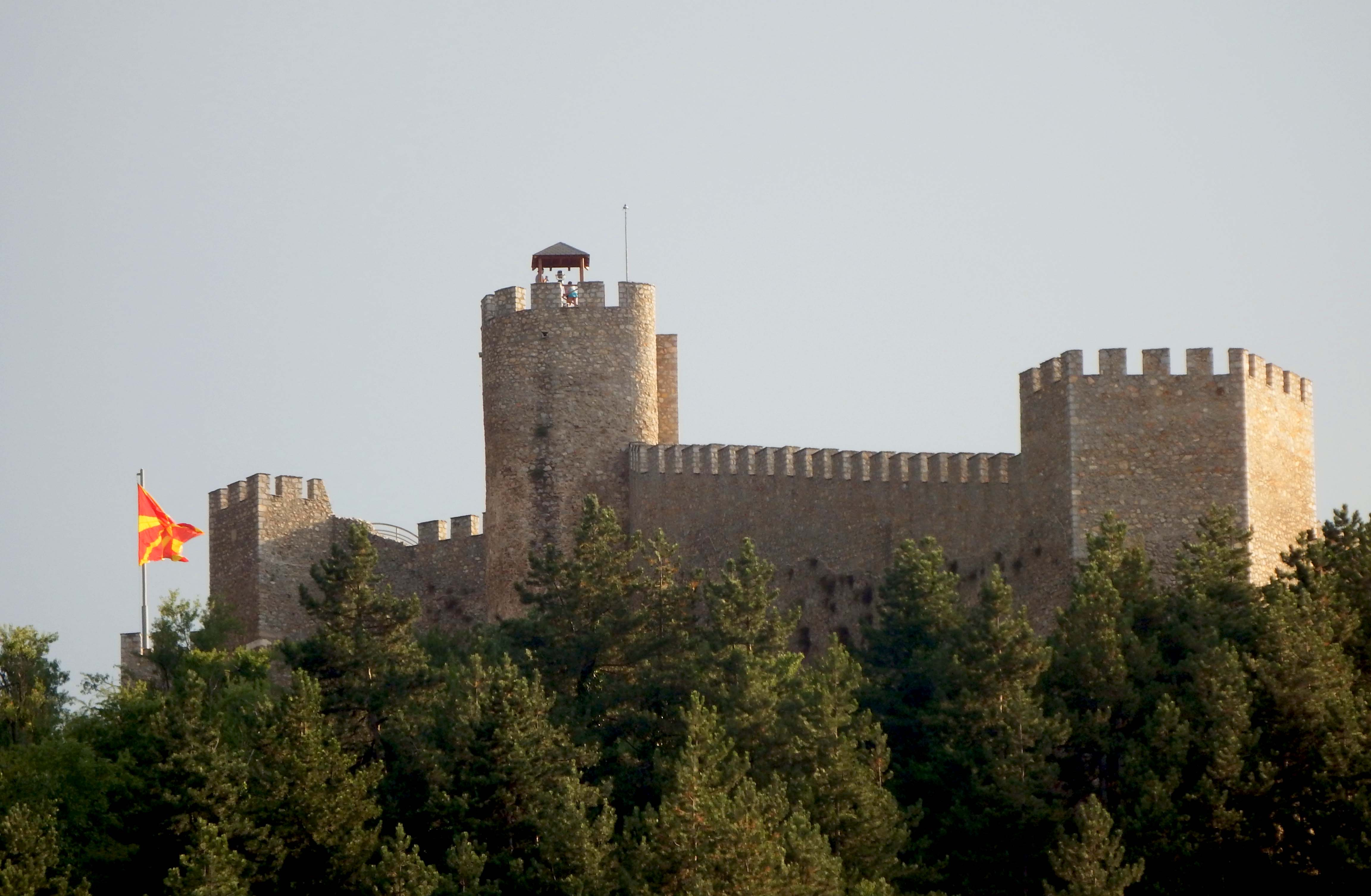 Samuil's Fortress on the hill over the old town in Ohrid , Republic of Macedonia.